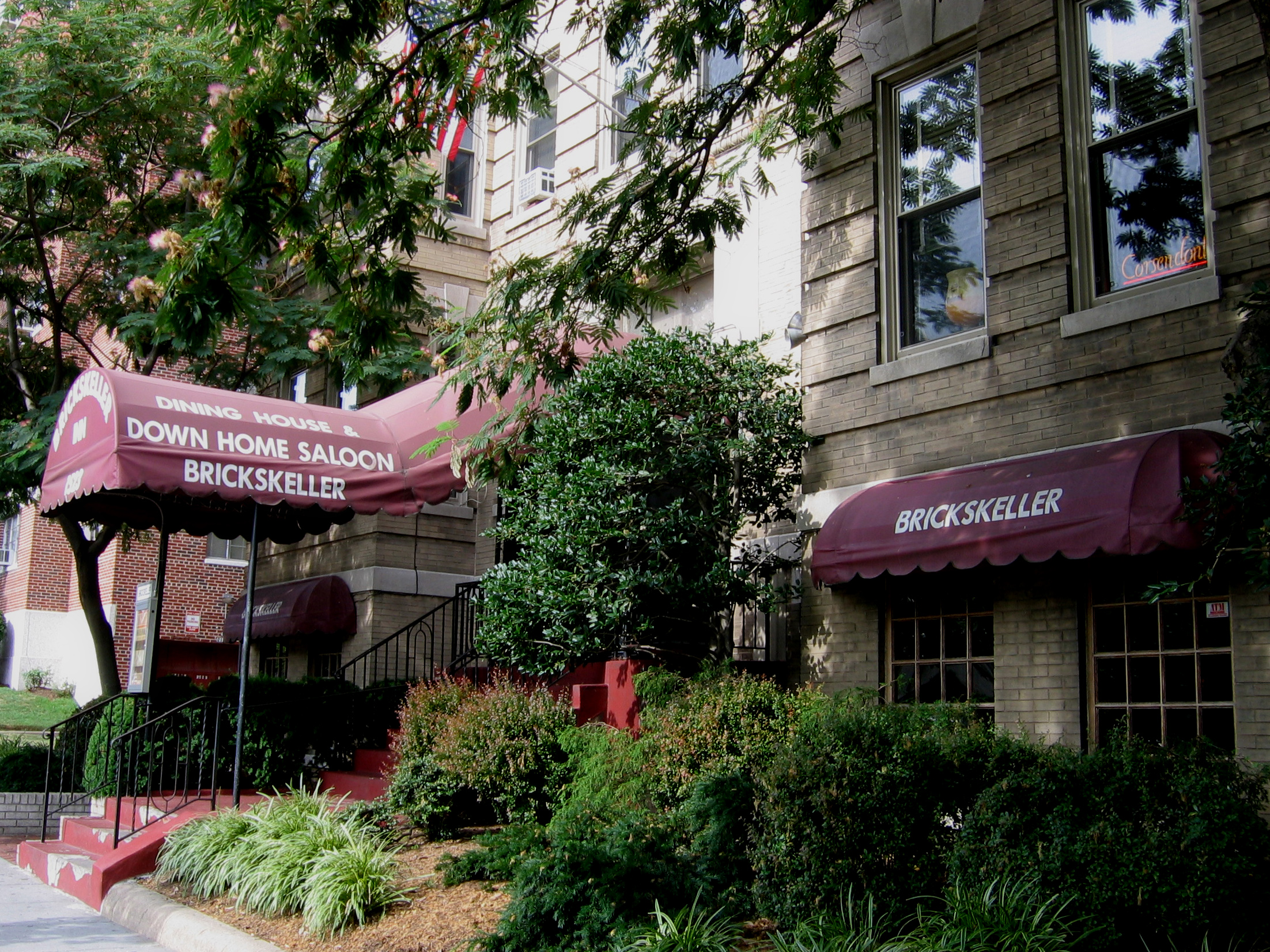 The Brickskeller, a tavern and hotel, located at 1523 22nd Street, NW in the Dupont Circle neighborhood of Washington, D.C. With 1,032 choices of bottled beer on the beer list, The Brickskeller is listed in Guinness World Records as "the bar with the largest selection of commercially available beers." Constructed in 1912, the building originally served as an apartment house named The Sheridan (later named The Donald Apartments, The Donald Hotel, and Marifex Hotel). The Brickskeller is a contributing property to the Dupont Circle Historic District and valued at $7,418,800.